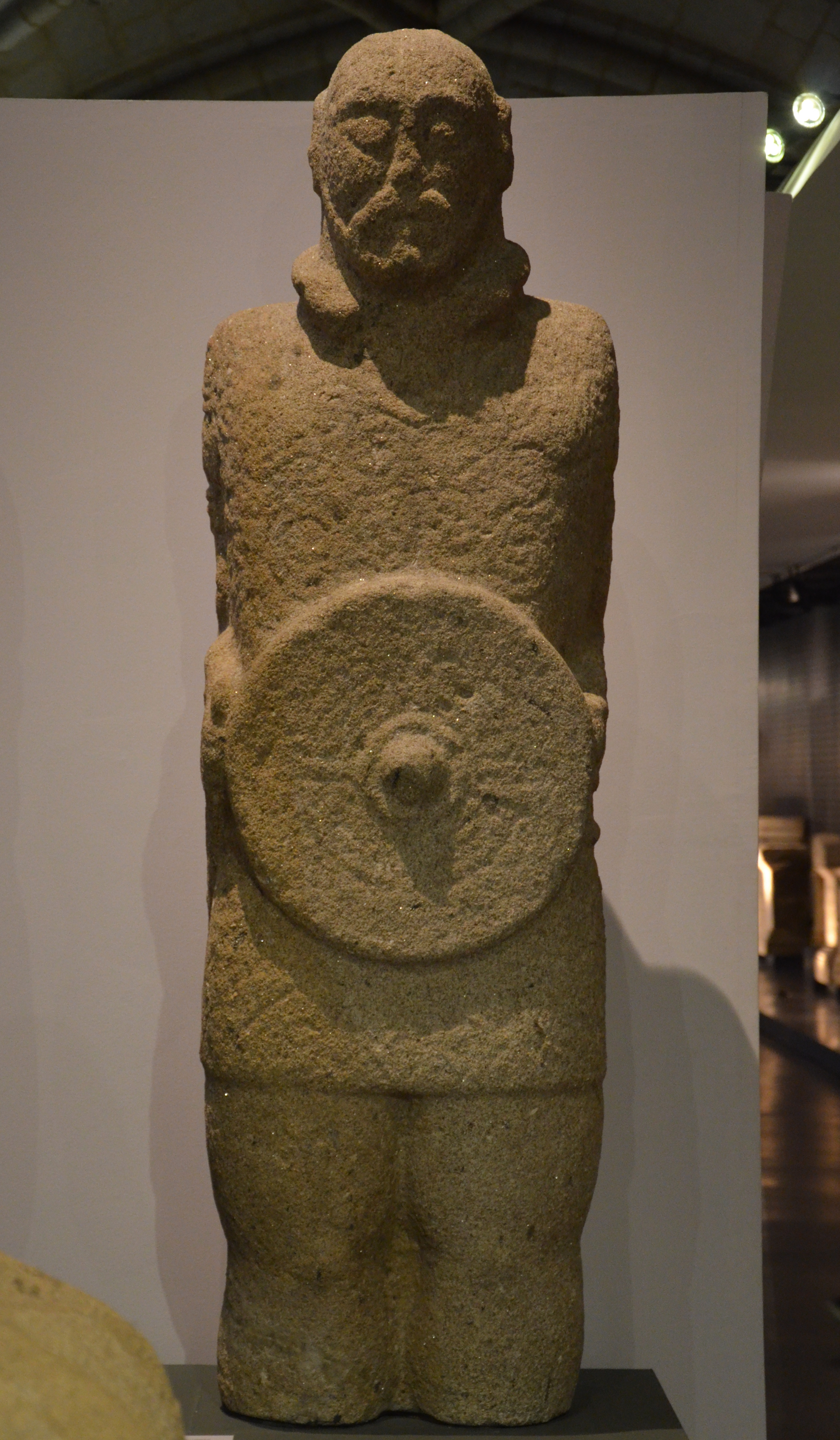 Monolithic sculpture depicting a static warrior. The respective attributes belong to the scope of a native artefactual tradition: a small, round and flat shield with central "omphalos" ("caetra"); triangular dagger or short sword with discoid pommel; "viria" with three rods on the right arm; open-looped torc thickened at the endings; "sagum" with V-shaped low neck and short sleeves fastened by a waistband. His head is proportionate, showing a short hair, which frees the ears, beard and moustache. (According to record of the Exhibition Catalogue "Religions of Lusitania").